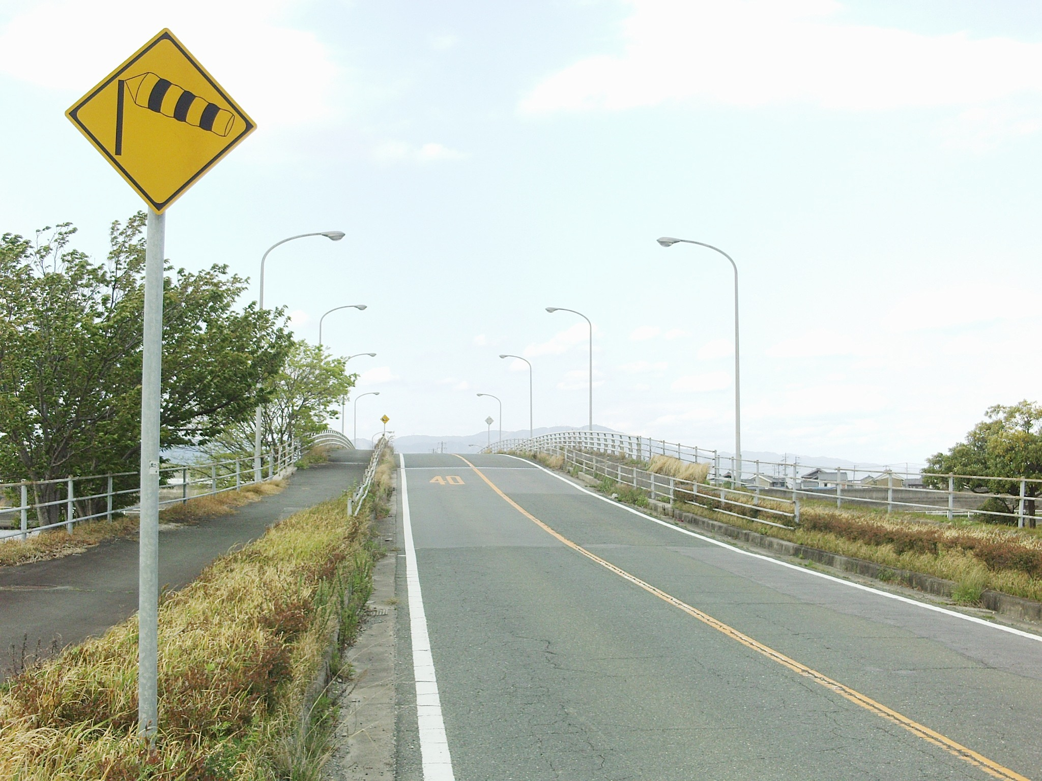 The Aichi Prefectural Road Route 395 in Ichigochi, Mitocho-Sawakihama, Toyokawa City